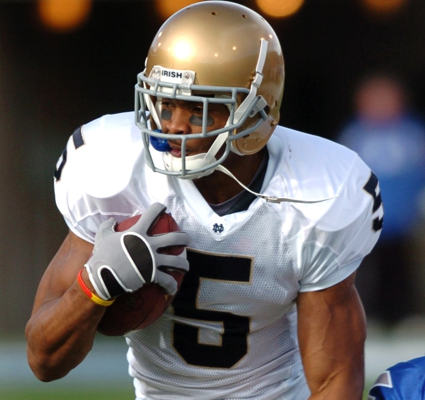 Notre Dame wide receiver Rhema McKnight side-steps Air Force cornerback Chris Sutton on a pass from quarterback Brady Quinn before picking up 20 yards and a first down.